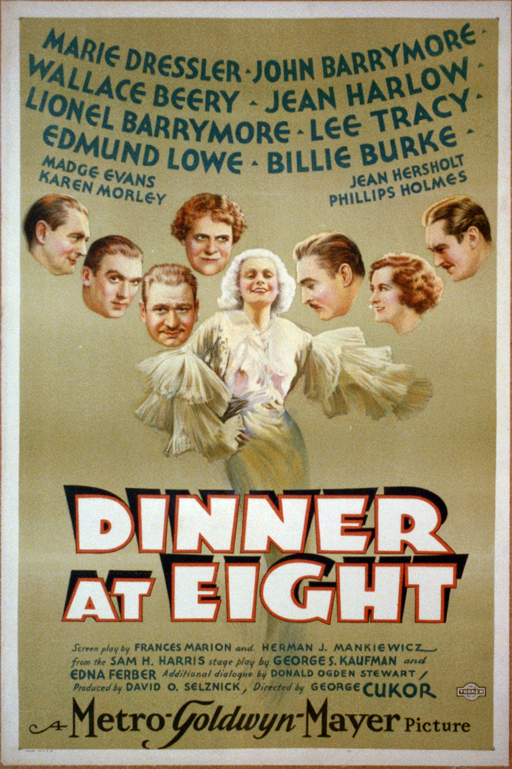 Promotional poster for the film Dinner at Eight.